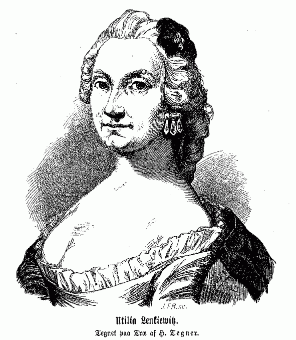 Utilia Lenkiewitz, née van Mander (ca. 1710-1770), Danish actress